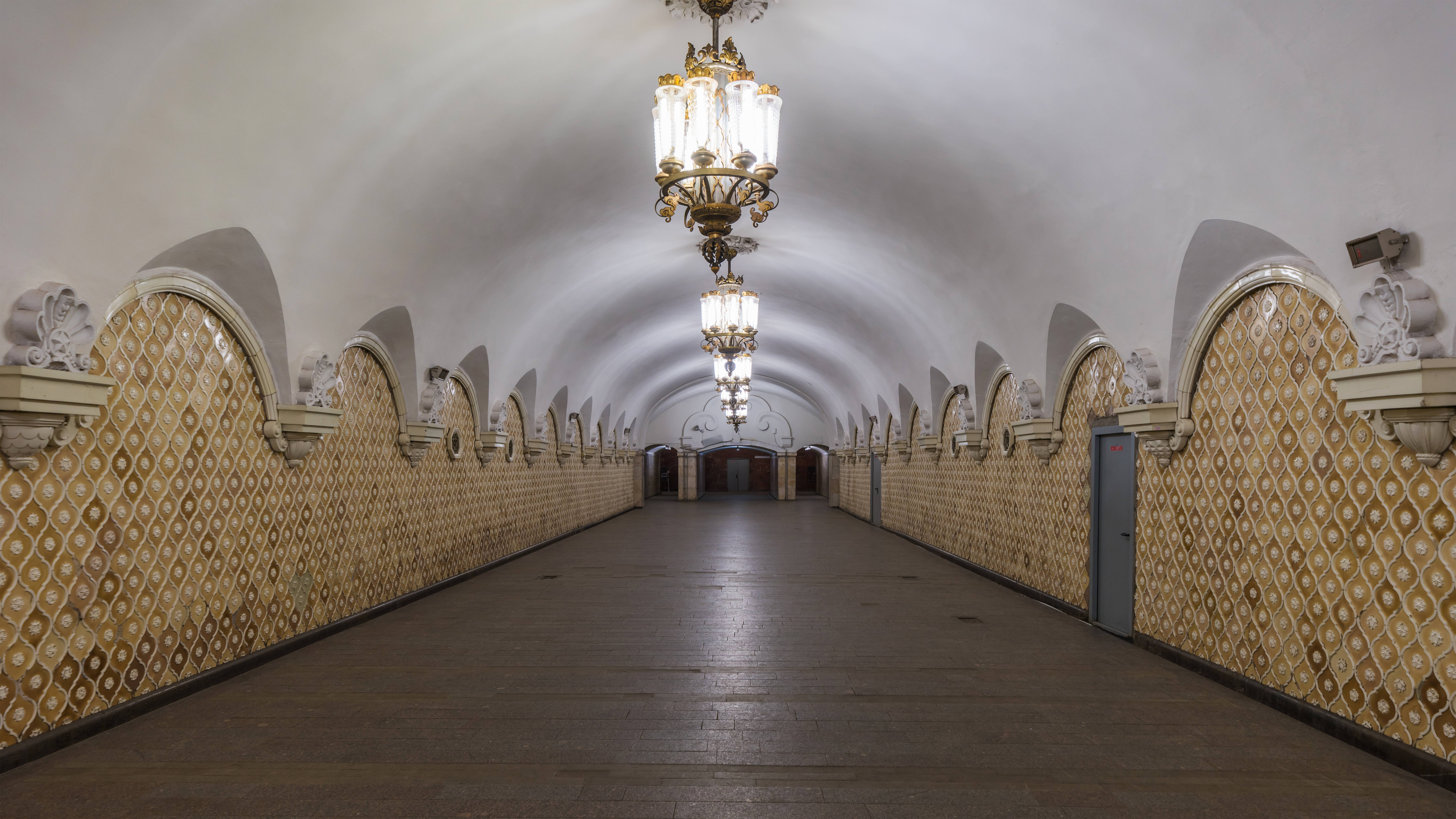 Interchange tunnel between Komsomolskaya (Circle Line) and Komsomolskaya (Red Line) metro stations in Moscow